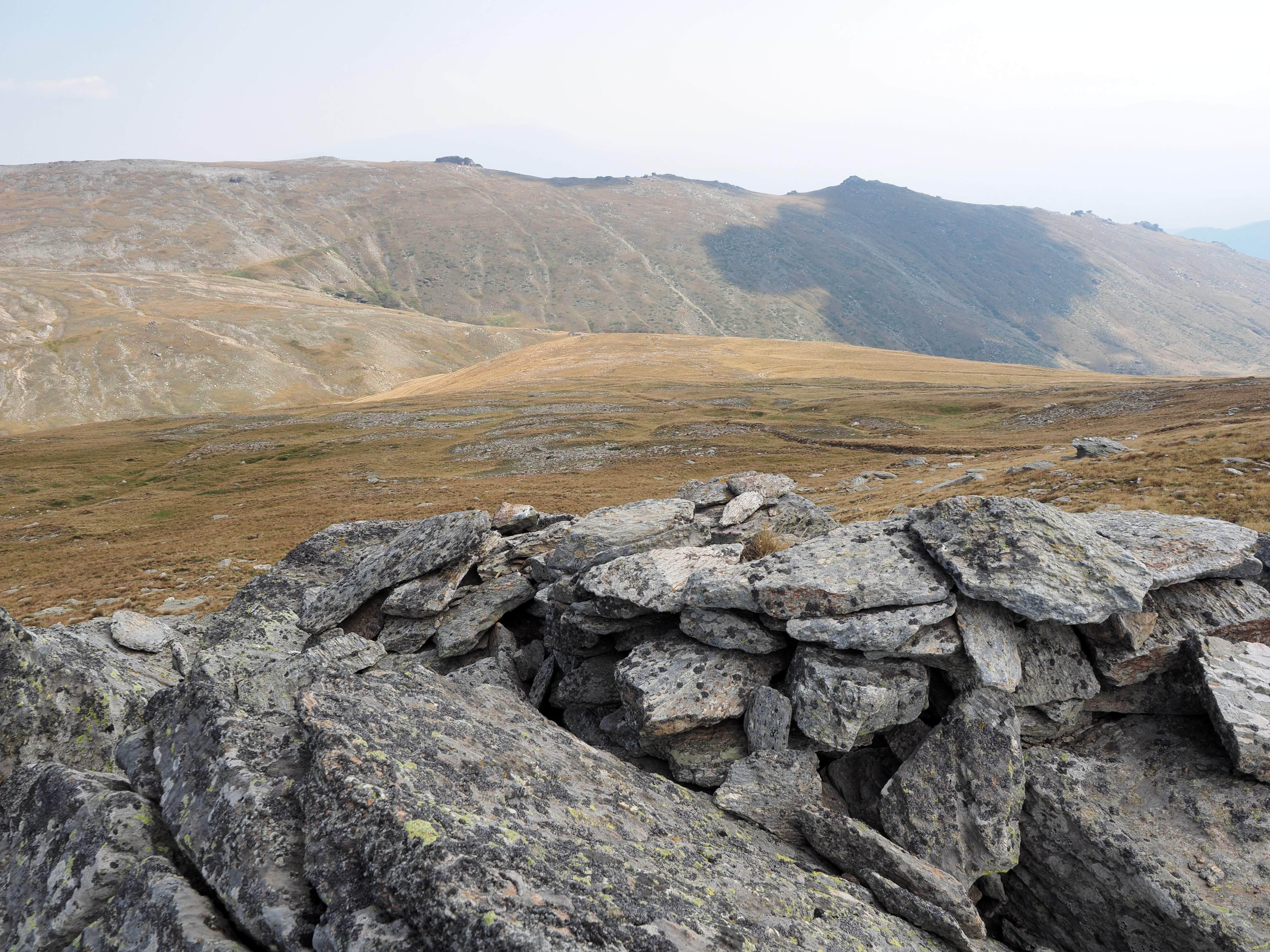 View to Kočobej (Koutsoubei) mountain from Bulgarian bunker (Solunski front, 1st World War).